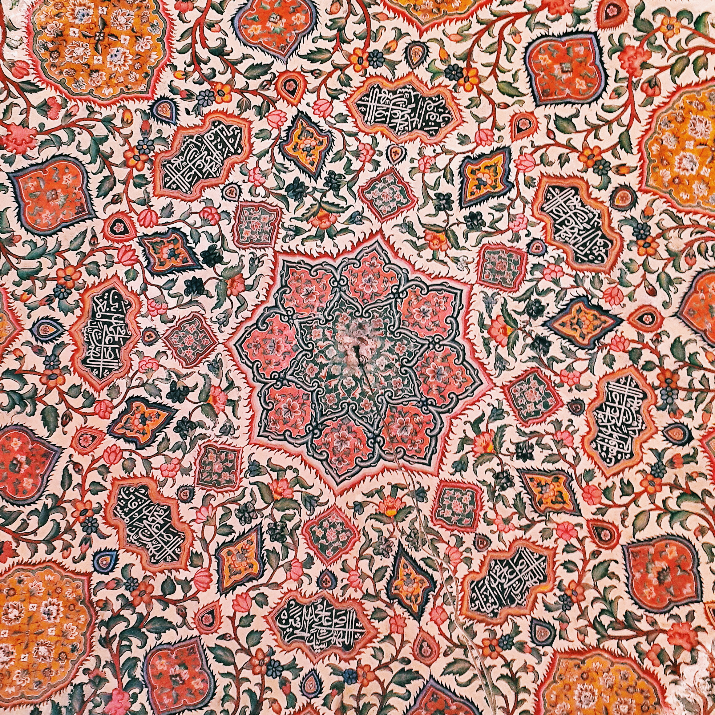 Wazir Khan Mosque This is a photo of a monument in Pakistan identified as the PB-100